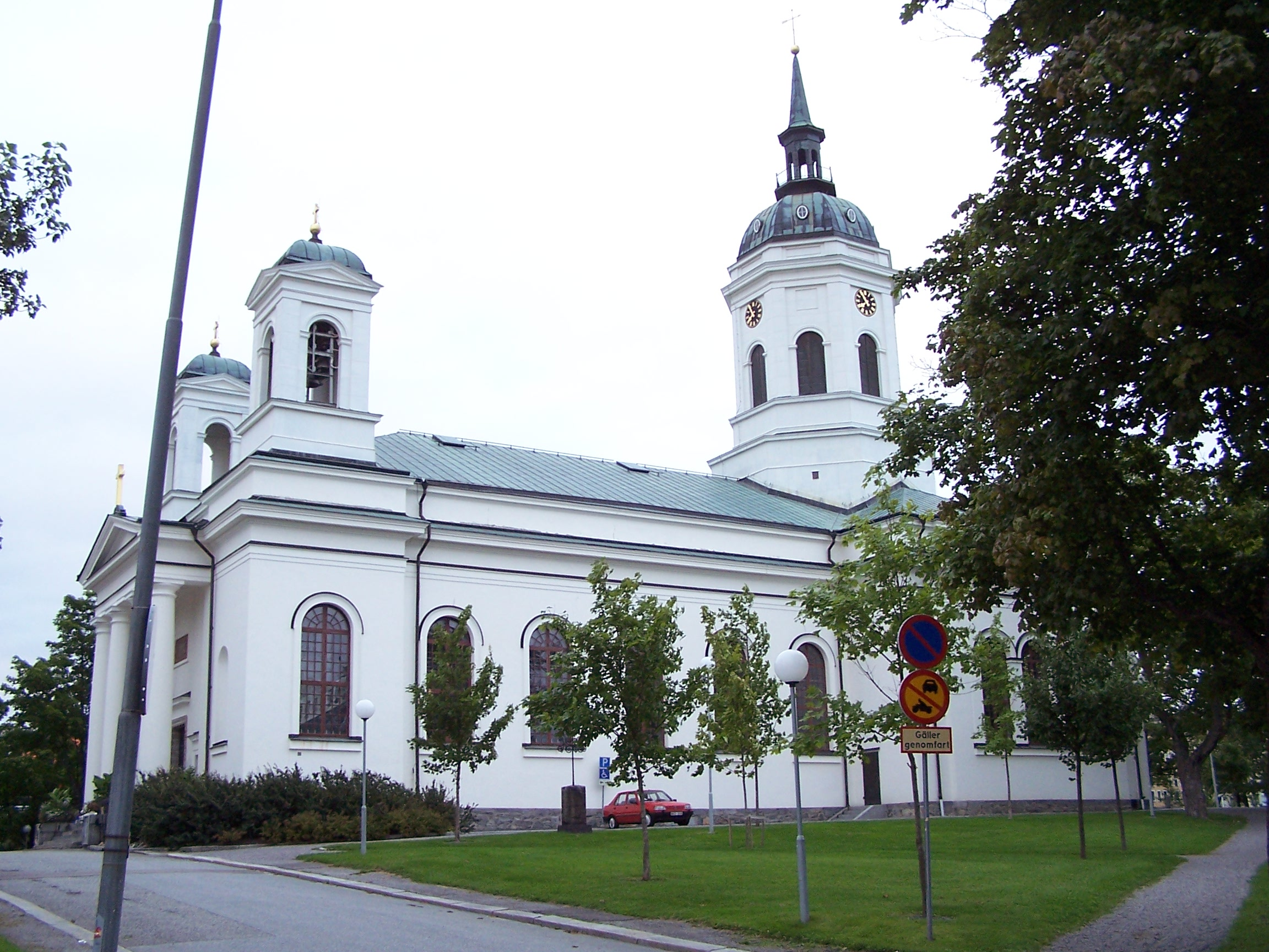 Härnösands domkyrka (cathedral of Härnösand) - From south, Sweden.